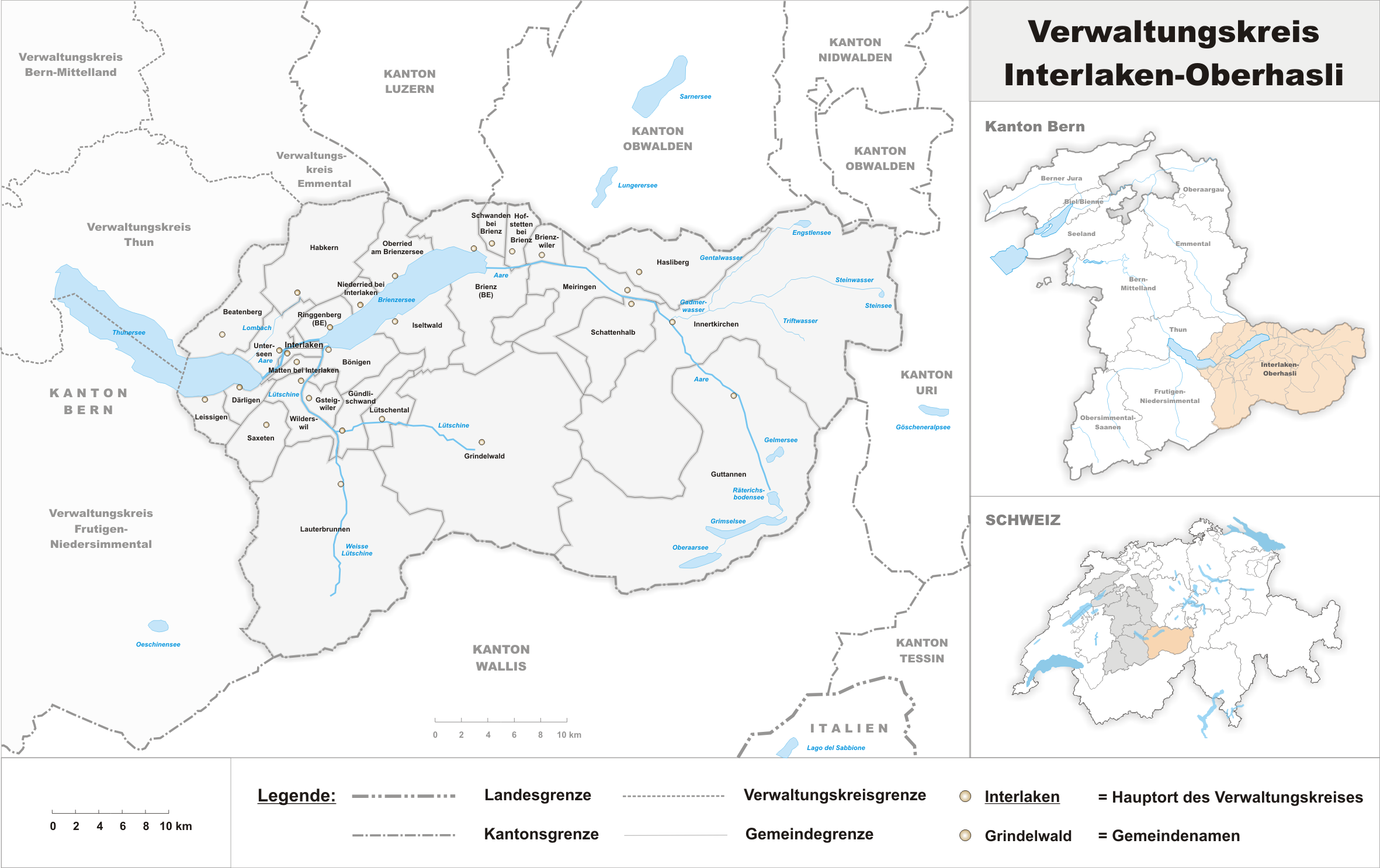 Municipalities in the district of Interlaken-Oberhasli